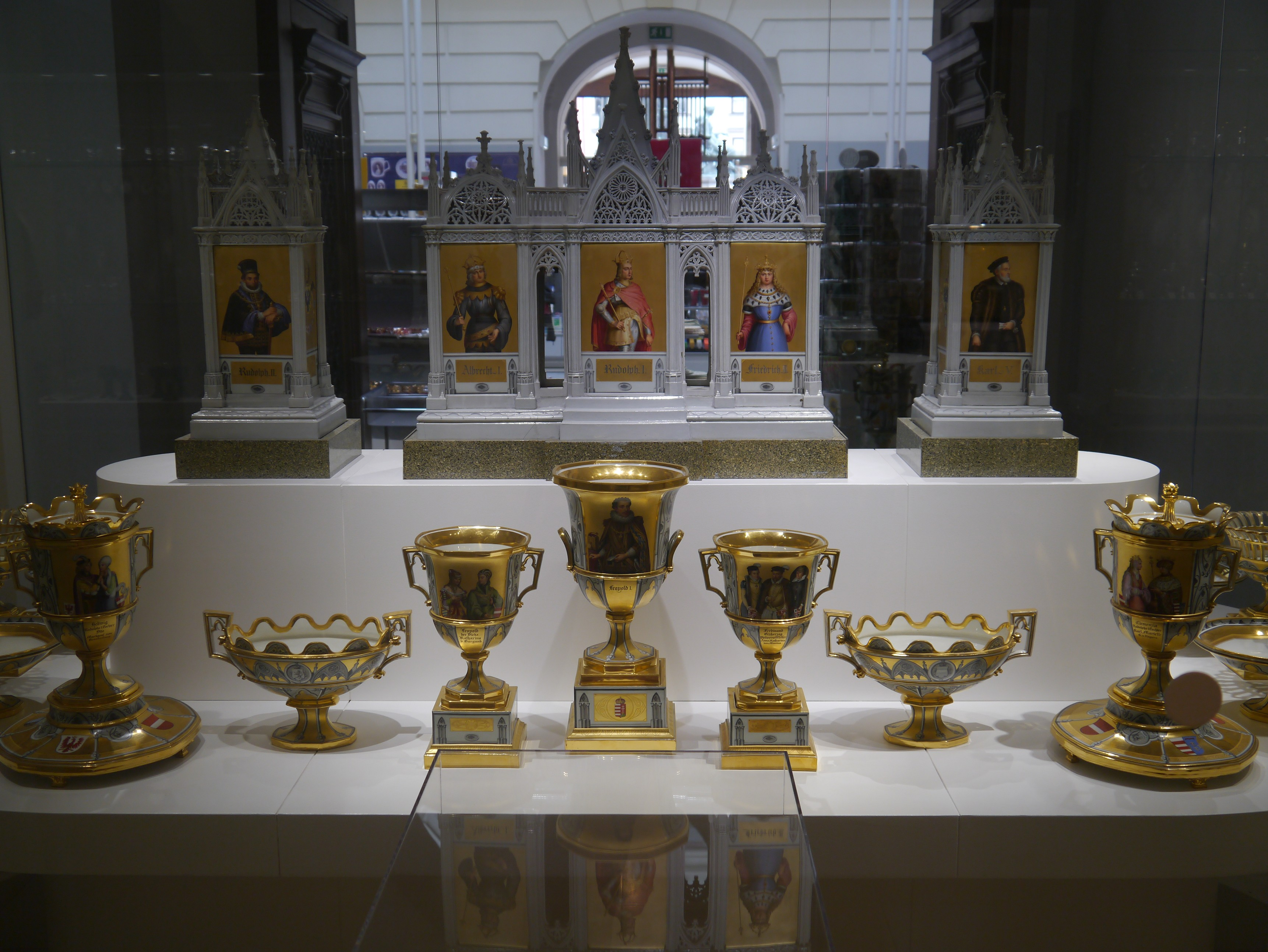 Imperial Silver Collection at the Hofburg, Vienna